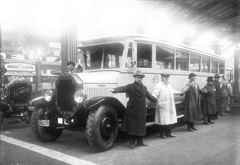 Vomag bus